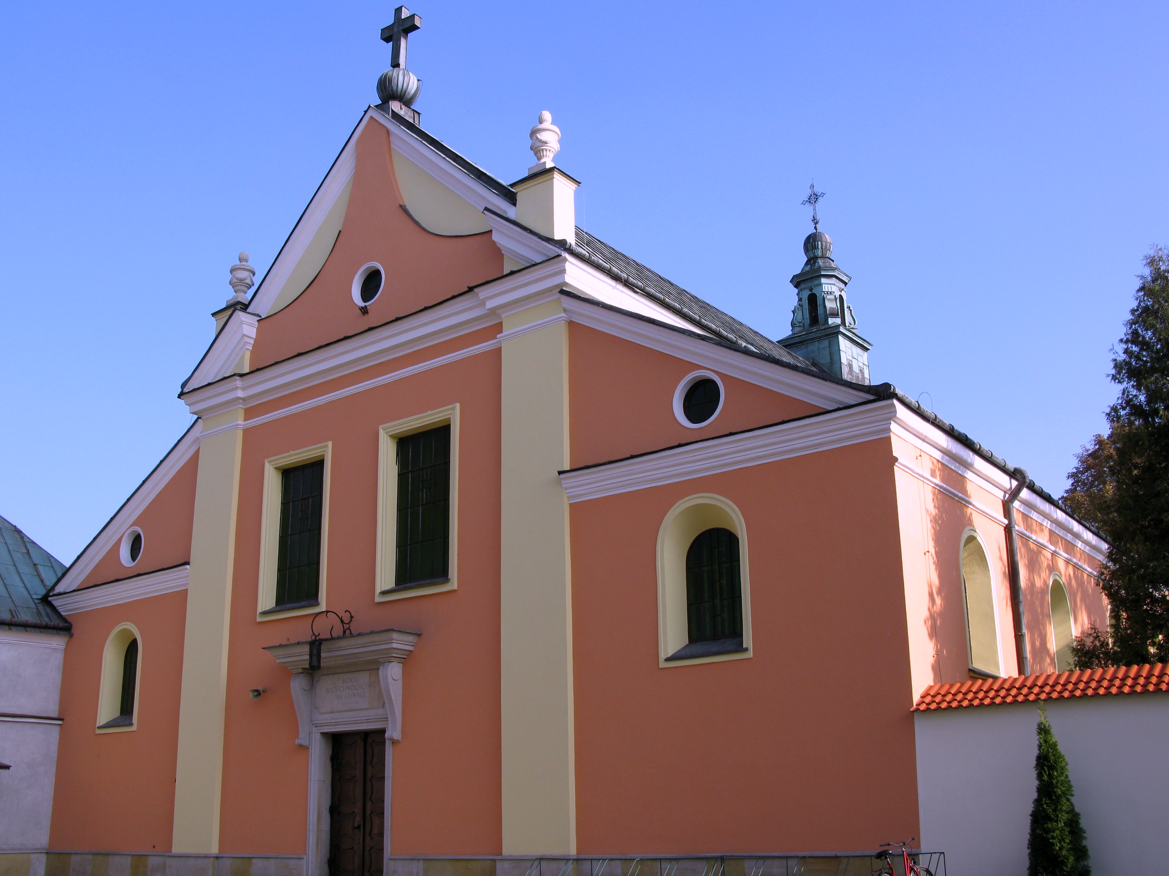 Church of the Capucine Friars in Zakroczym